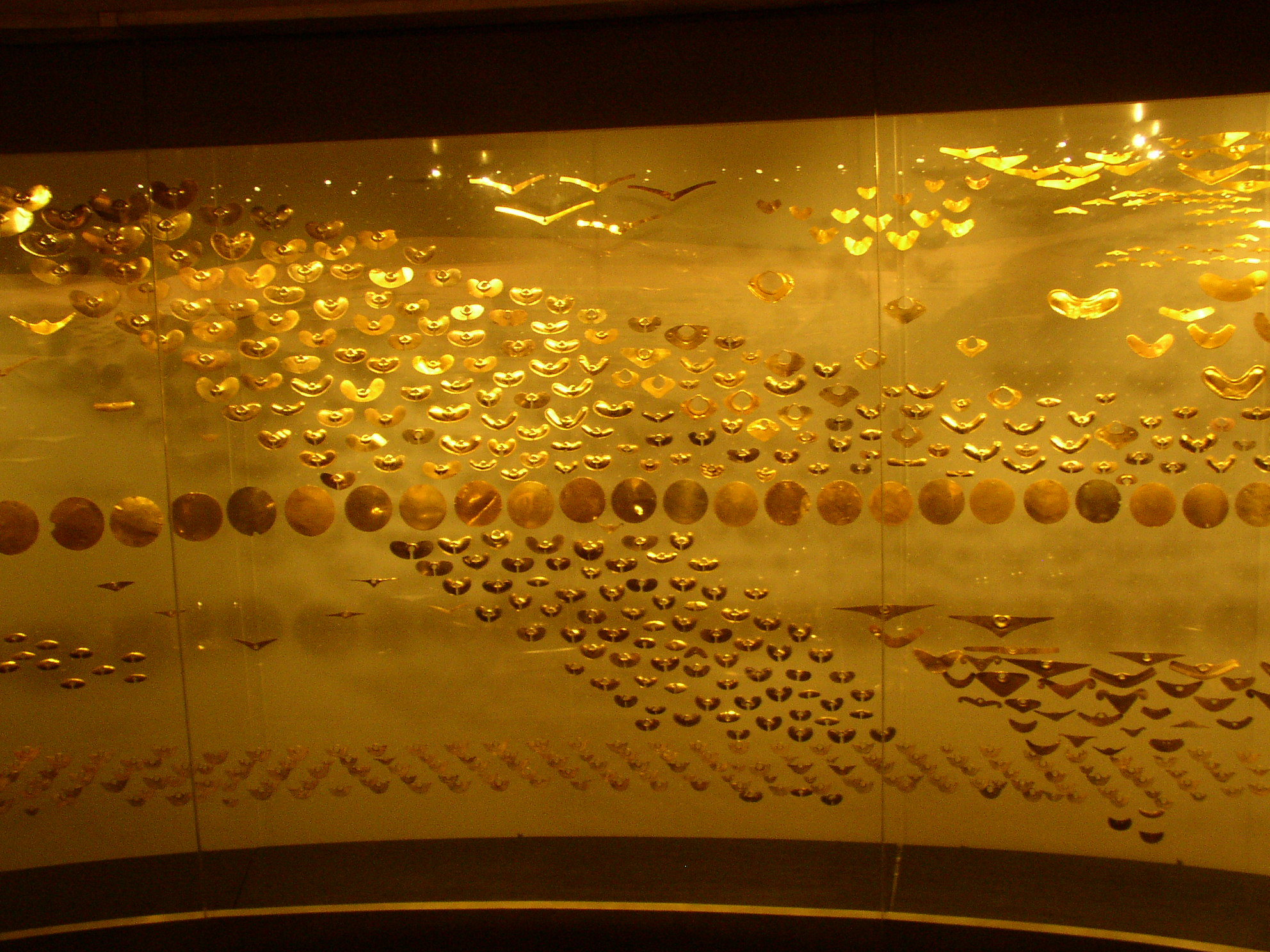 Museo del Oro en BogotÃ¡ Took the picture myself while in BogotÃ¡ for a math conference